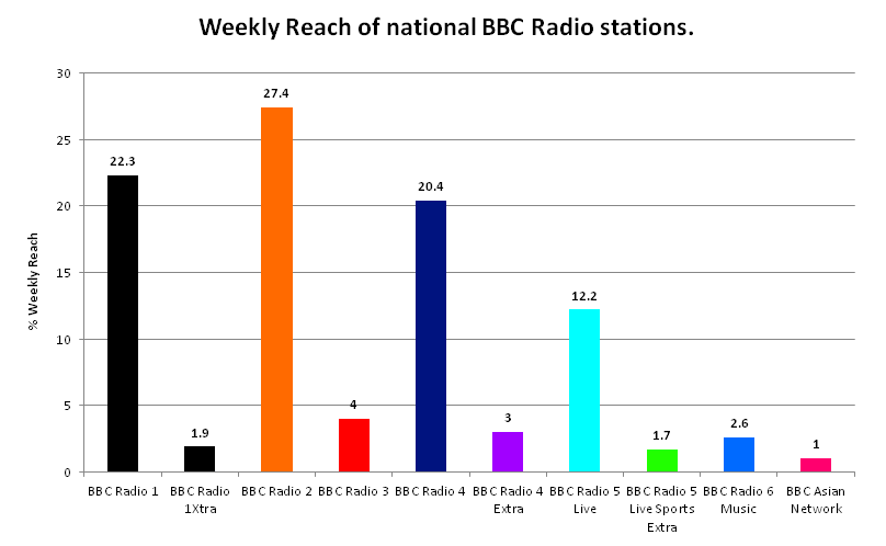 A graph showing the weekly reach of the BBC's national radio stations. Data supplied by the BBC in the public document, their Annual Report 2011/12